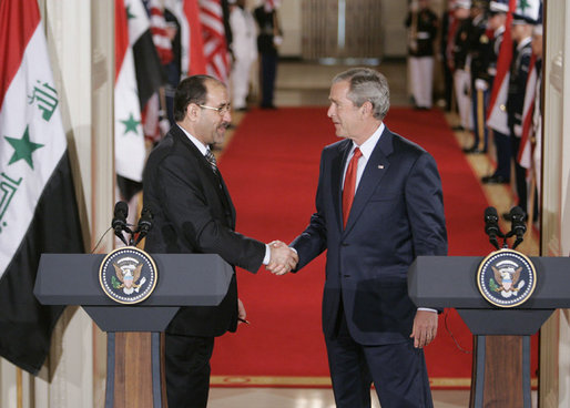 President George W. Bush shakes hands with Iraqi Prime Minister Nouri al-Maliki at the conclusion of their joint press availability in the East Room of the White House Tuesday, July 25, 2006.